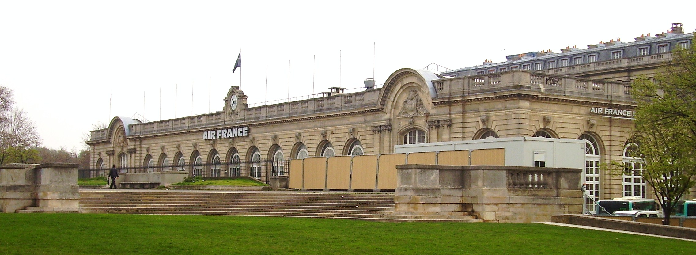 Aérogare des Invalides with the Air France logo